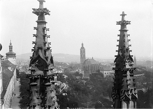 Church od st. James in Kutná Hora from Church of st. Barbara (1919).